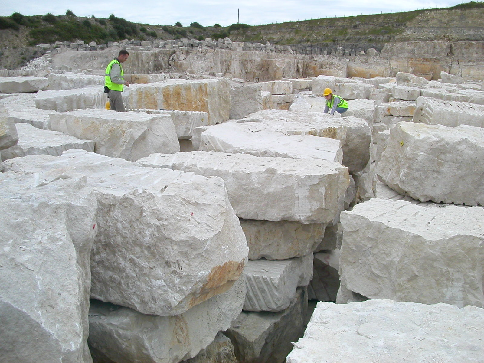 Photograph taken by Mark A. Wilson (Department of Geology, The College of Wooster). [1]